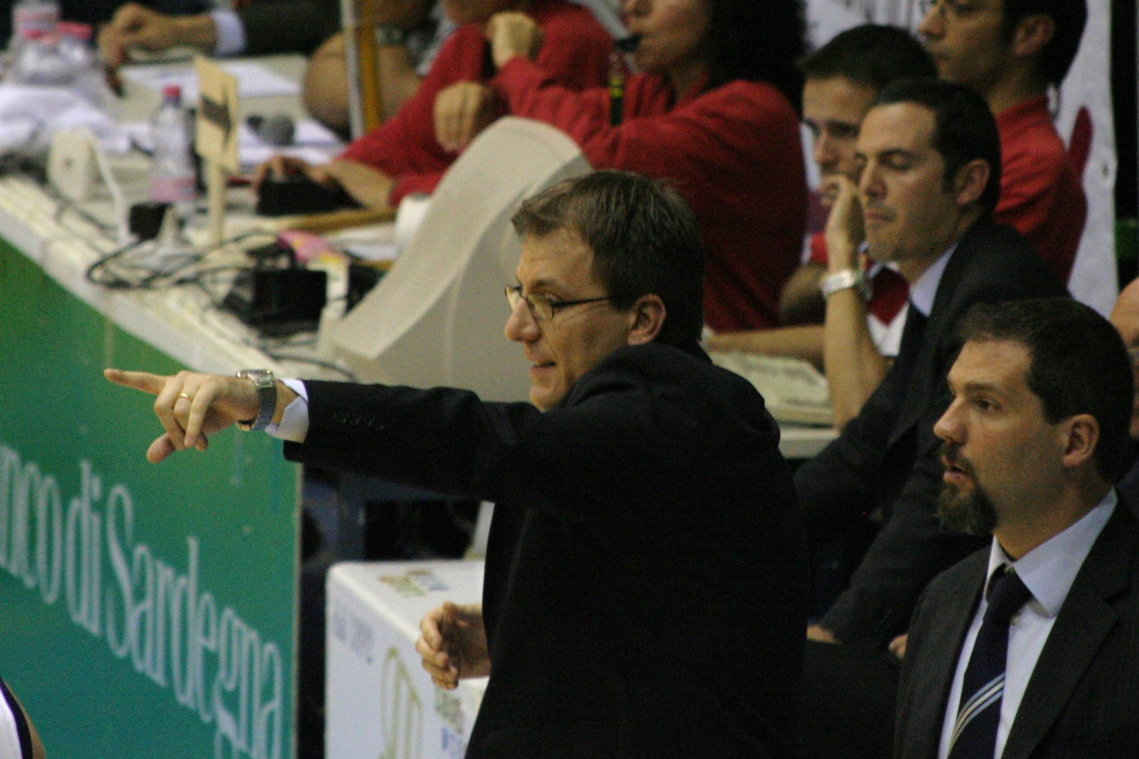 Demis Cavina, coach of Dinamo Sassari 2008/2009